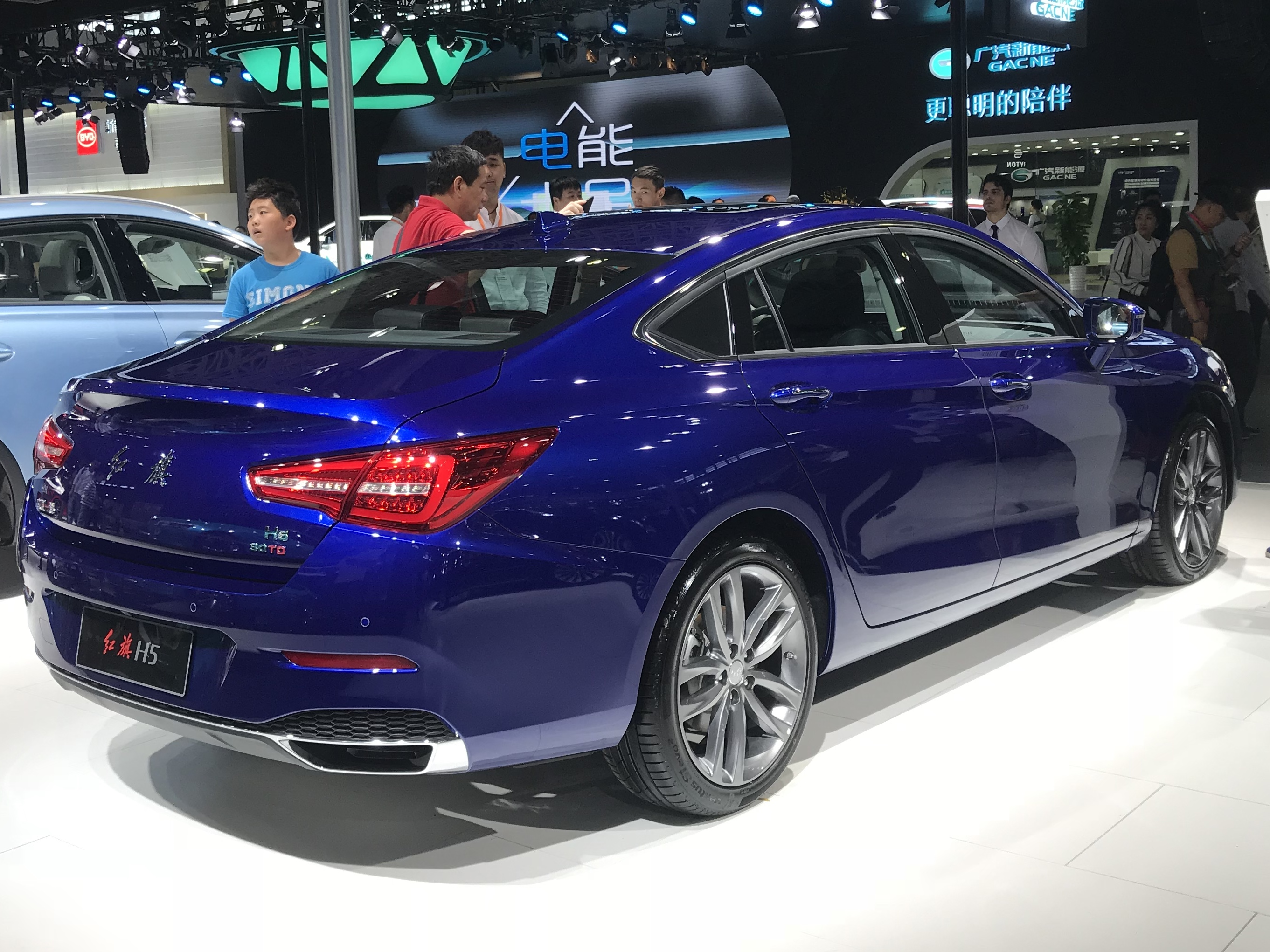 Hongqi H5 rear